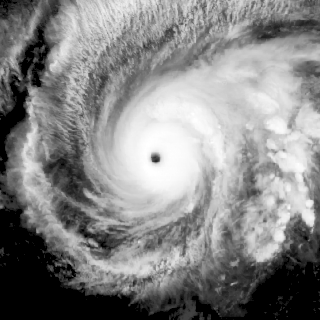 Super Typhoon Maysak during its peak intensity on March 31, 2015, captured on the MTSAT-2 satellite.